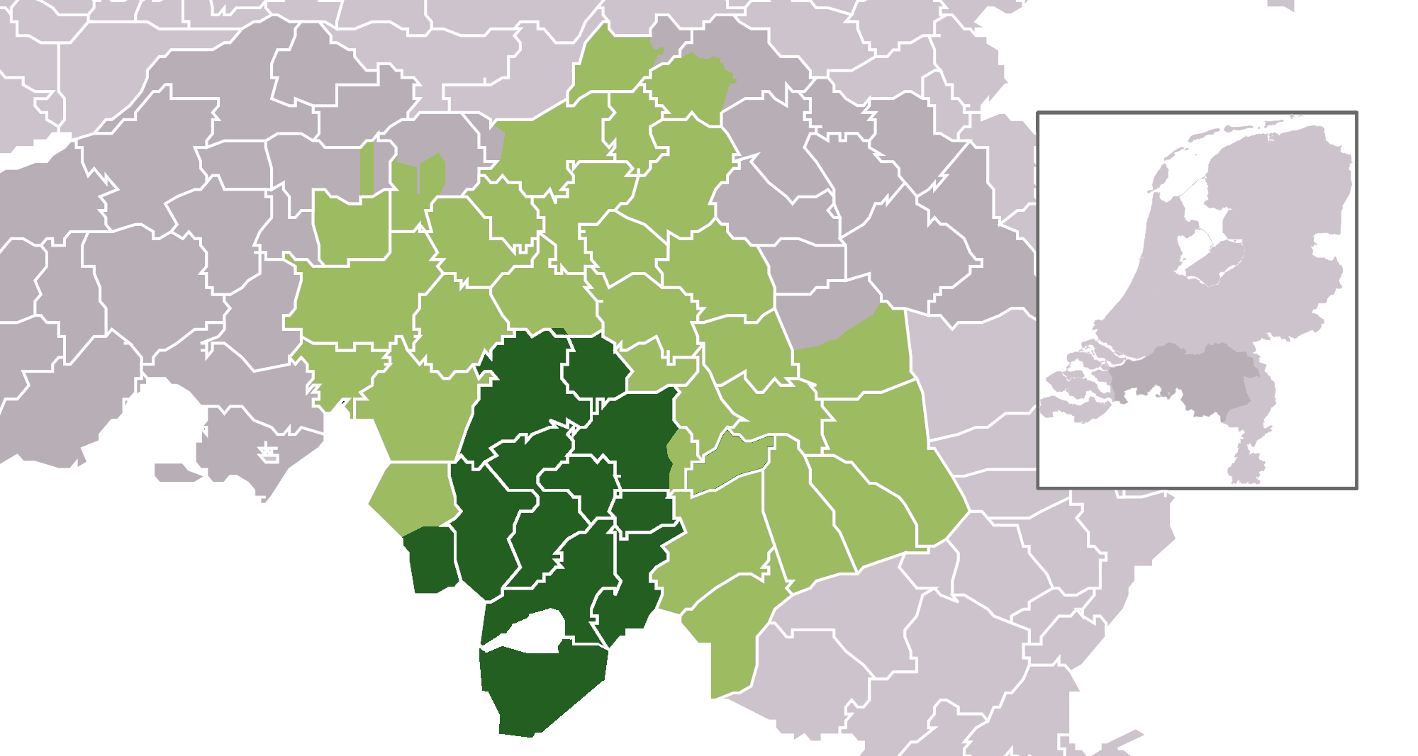 Quarter of Kempenland in the historical Meierij van Den Bosch' Location maps for the 441 municipalities in the Netherlands. Boundaries 1/1/2009 Automatically generated with script File name contains "Municipality codes" (CBS-code) as specified in: [1] Created in svg using coordinate data derived from ESRI data published by Centraal Bureau voor de Statistiek, Voorburg/Heerlen. ([2]) Color coding and original design by user Mtcv (2006/2007) ([3])